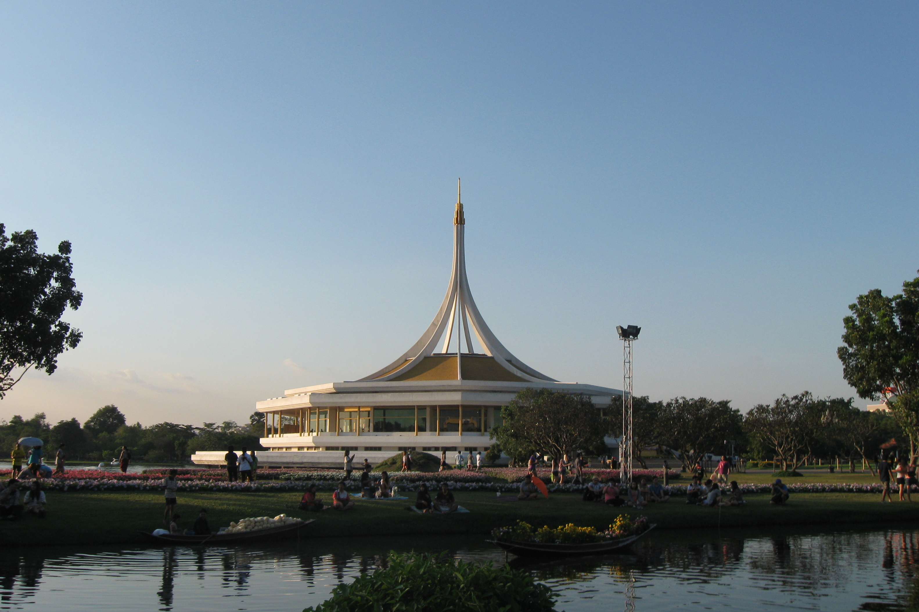 Suan Luang Rama 9 Park, Bangkok, Thailand—Ratchamangkhala Pavilion